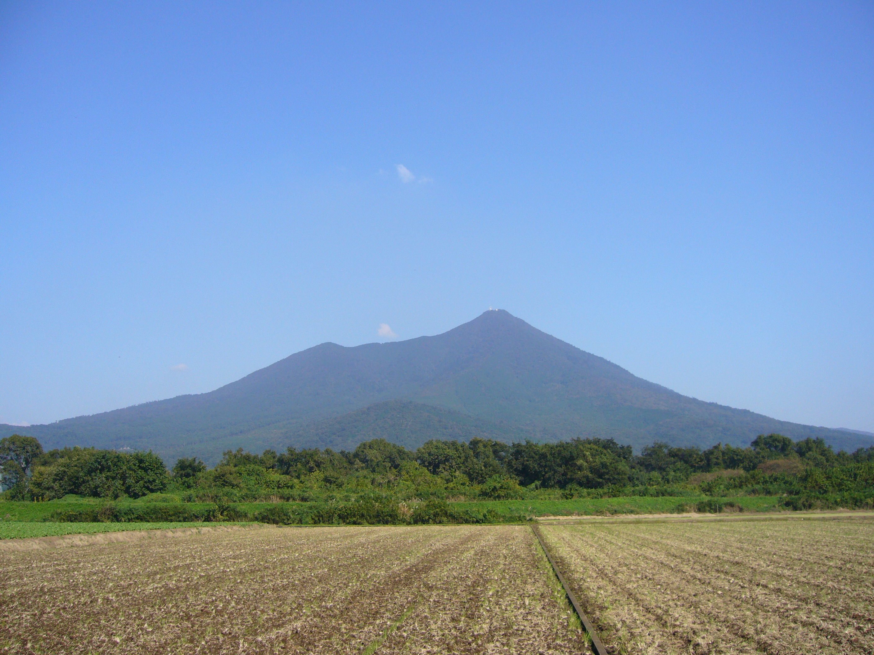 Mount Tsukuba seen from the WSW, in Ibaraki Prefecture, Japan.